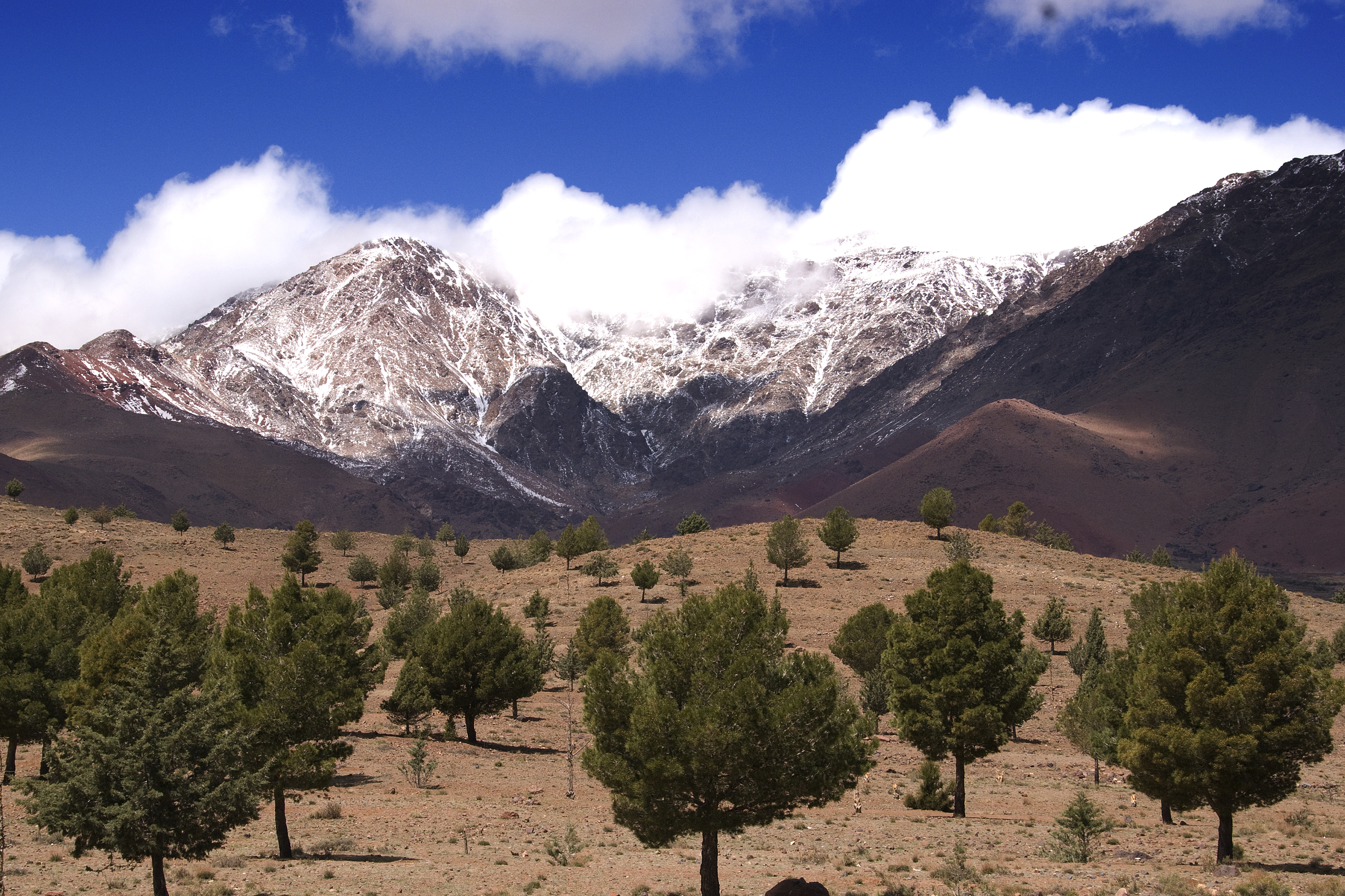 Taken from Tizi-n-Tishka pass road (25 minutes bus stop), on my way back to Marrakesh The whole set from Morocco